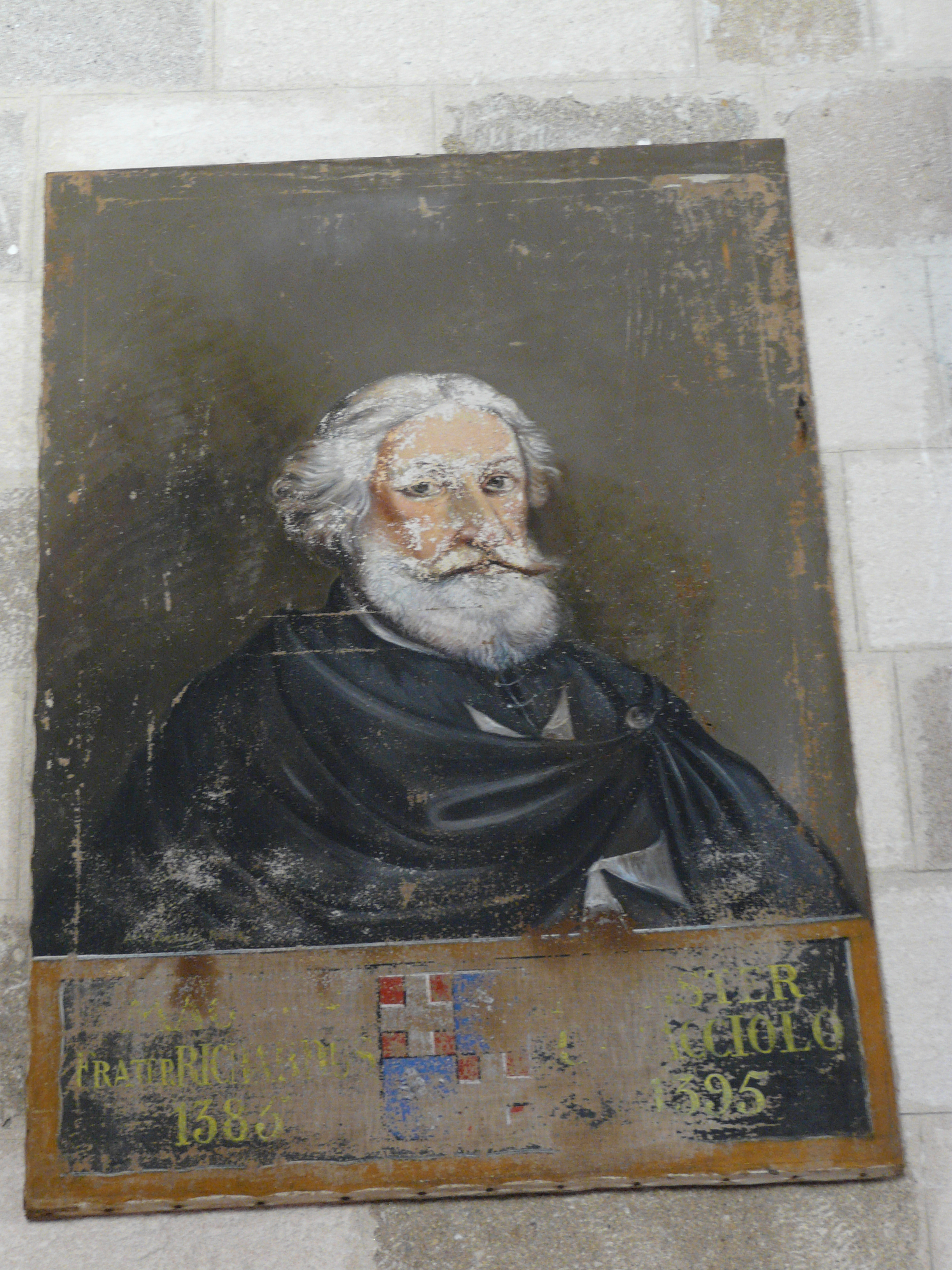 Palace of the Grand Master of the Knights of Rhodes